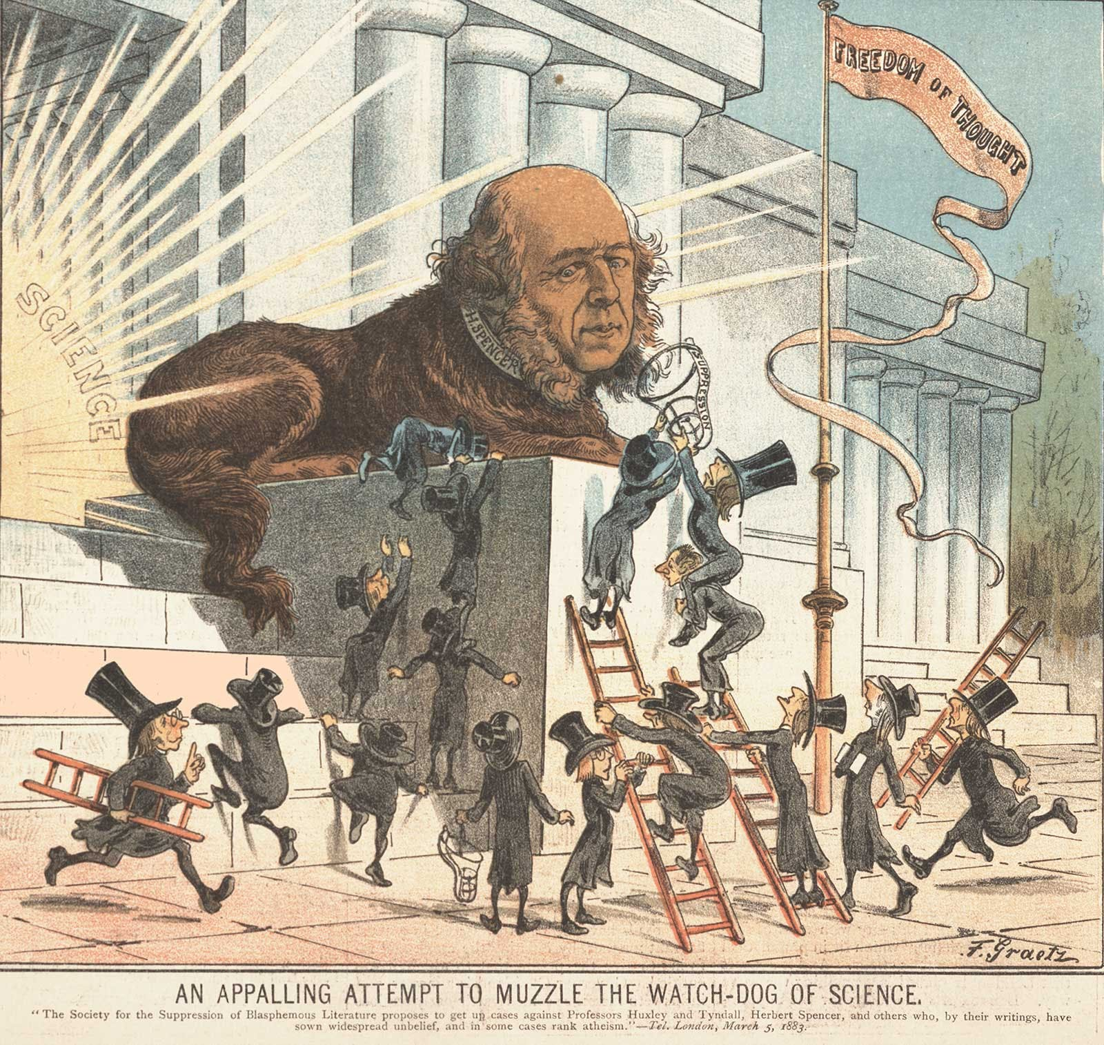 "An appalling attempt to muzzle the watch-dog of science", political cartoon by Friedrich Graetz (April 3, 1842, Frankfurt am Main - November 28, 1912 Vienna, Austria) Caption: "The Society for the Suppression of Blasphemous Literature proposes to get up cases against Professors Huxley and Tyndall, Herbert Spencer, and others who, by their writings have sown widespread unbelief, and in some cases rank atheism" Herbert Spencer is portrayed as a statue of a large dog before the entrance to a public building from which shine rays of light labeled "Science". He is surrounded by tiny men with oversized top hats, ladders and muzzles, presumably attempting to silence Spencer's views on religion and science. On a nearby flagpole hangs a banner that states "Freedom of Thought". This cartoon was published in PUCK Magazine, v. 13, no. 314, (1883 March 14). The cartoonist Friedrich Graetz worked for PUCK magazine from 1882-1885.